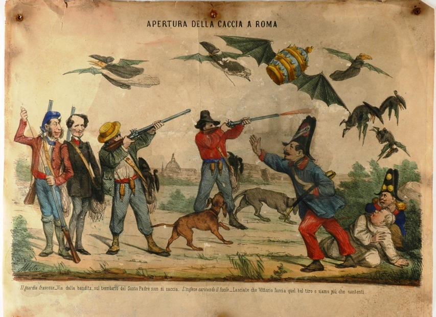 satiric print on "questione romana"